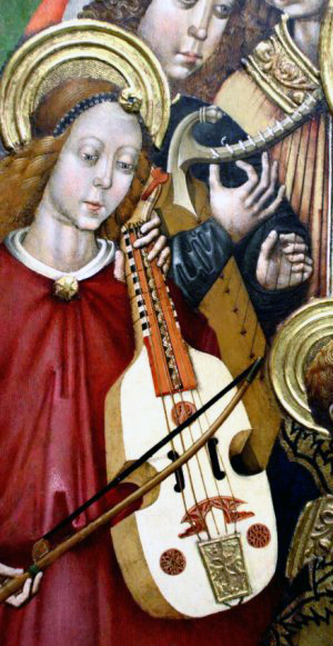 One of the eariest depiction of viola da gamba. This painting was made by Valentin Montoliu around 1475-85 for the Heremitage of St. Feliu (St. Félix) in Xàtiva (Valencia, Spain).